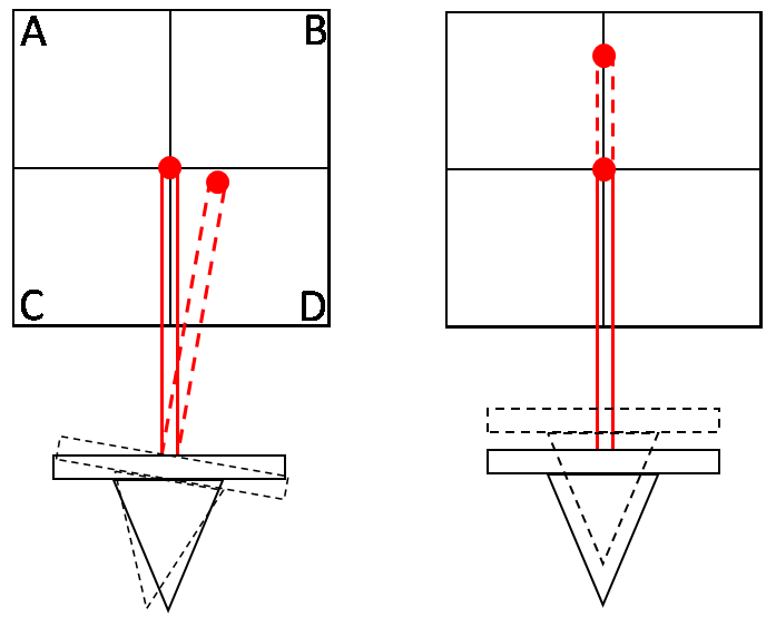 Diagram showing cantilever dynamics and the optical detector through AFM split photodiode detector